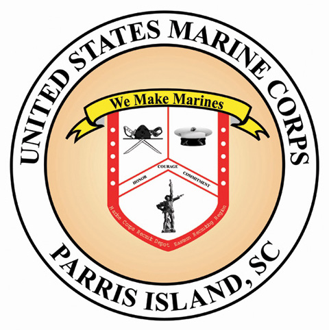 Marine Corps Recruit Depot, Parris Island logo